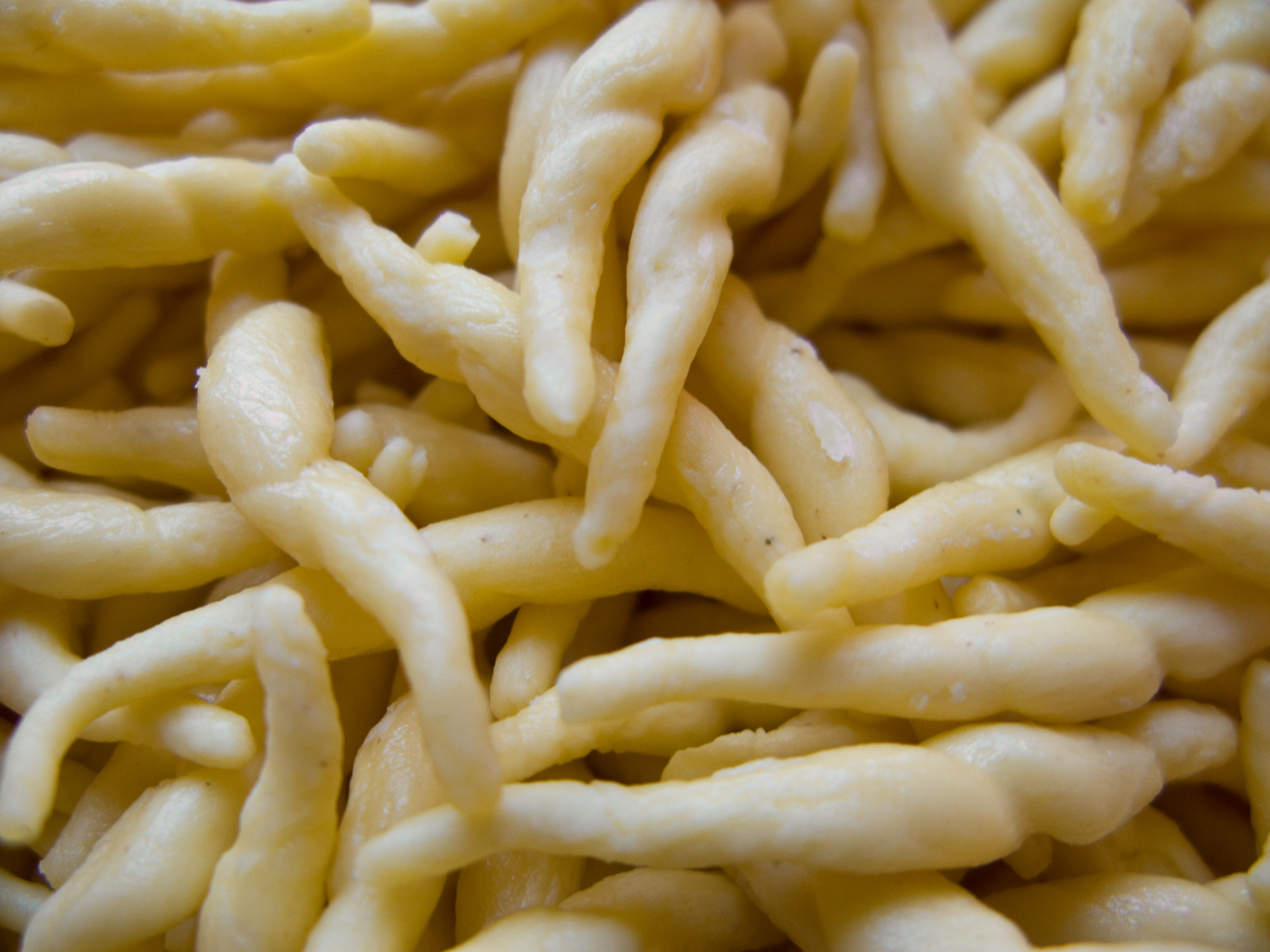 Macro photo of uncooked trofie pasta.